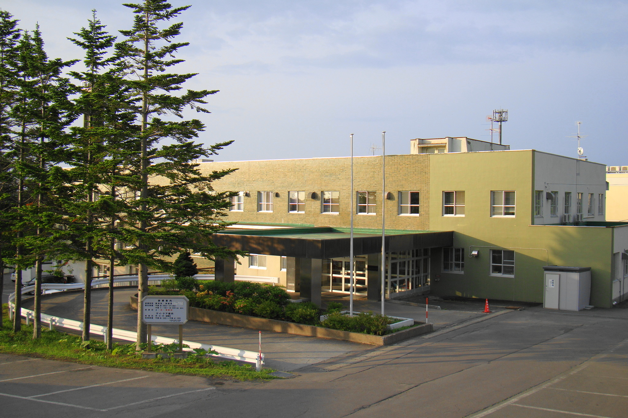 Abashiri Kōyōgaoka Hospital